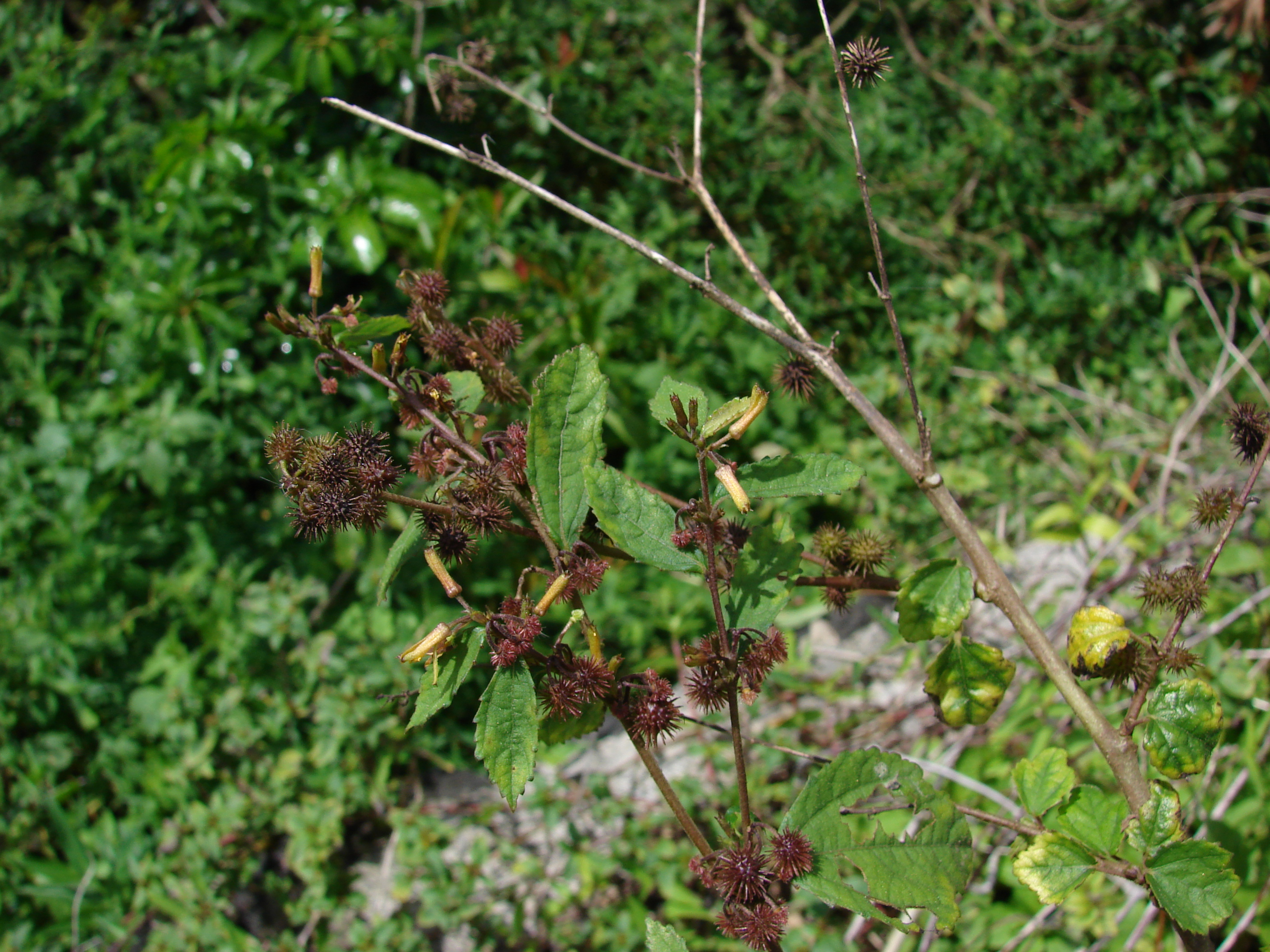 Triumfetta semitriloba (burs). Location: Maui, Hana